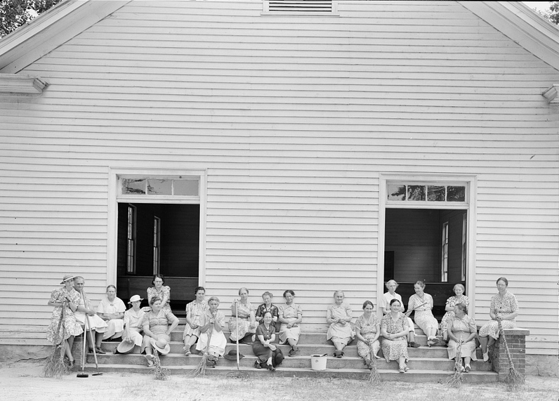 Women of the congregation of Wheeley's Church (Gordonton, North Carolina) on steps with brooms and buckets on annual clean up day